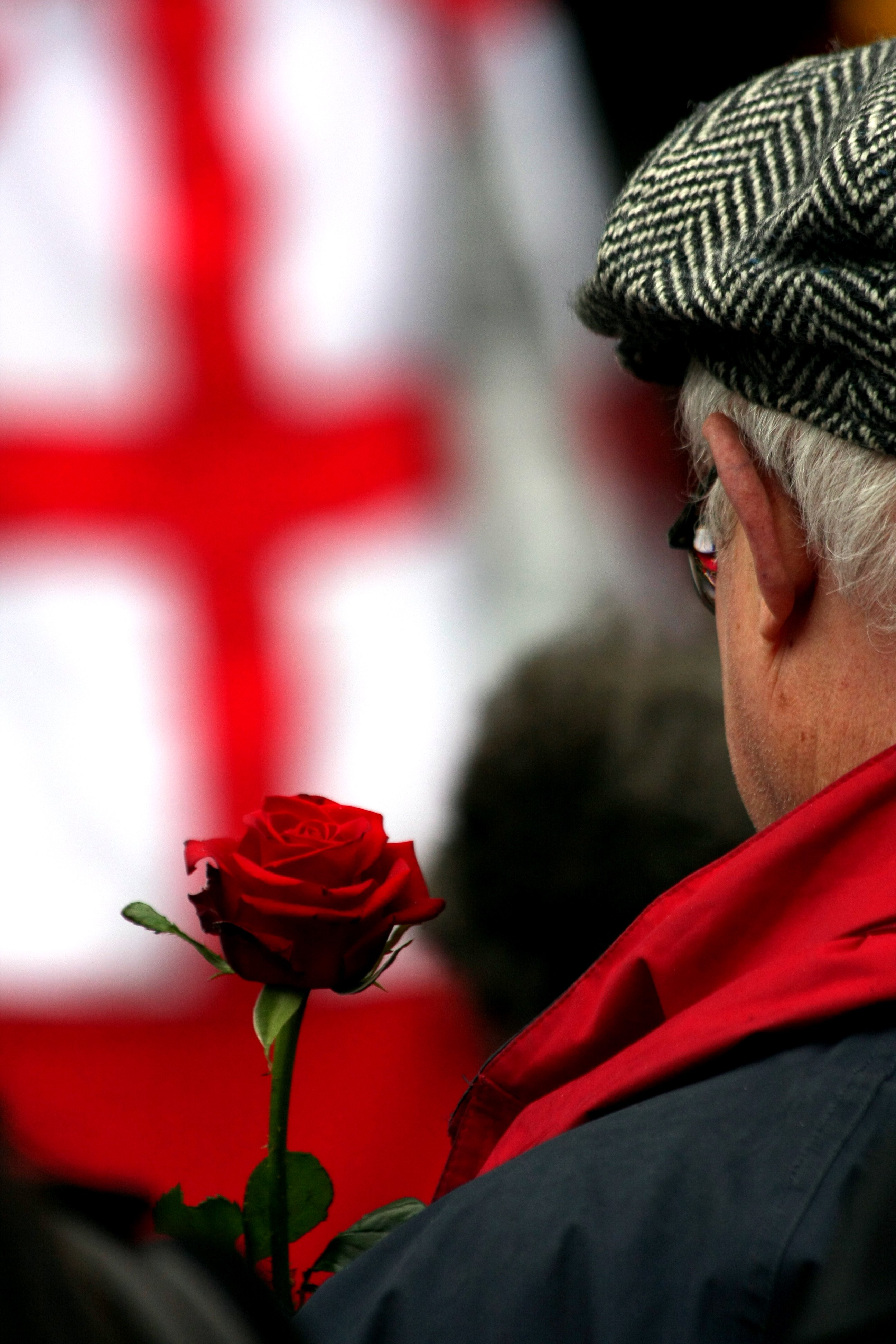 Original caption: This elderly gent holds a rose as he watches a play about Saint George and the Dragon at the St George's Day festival at London's Covent Garden.